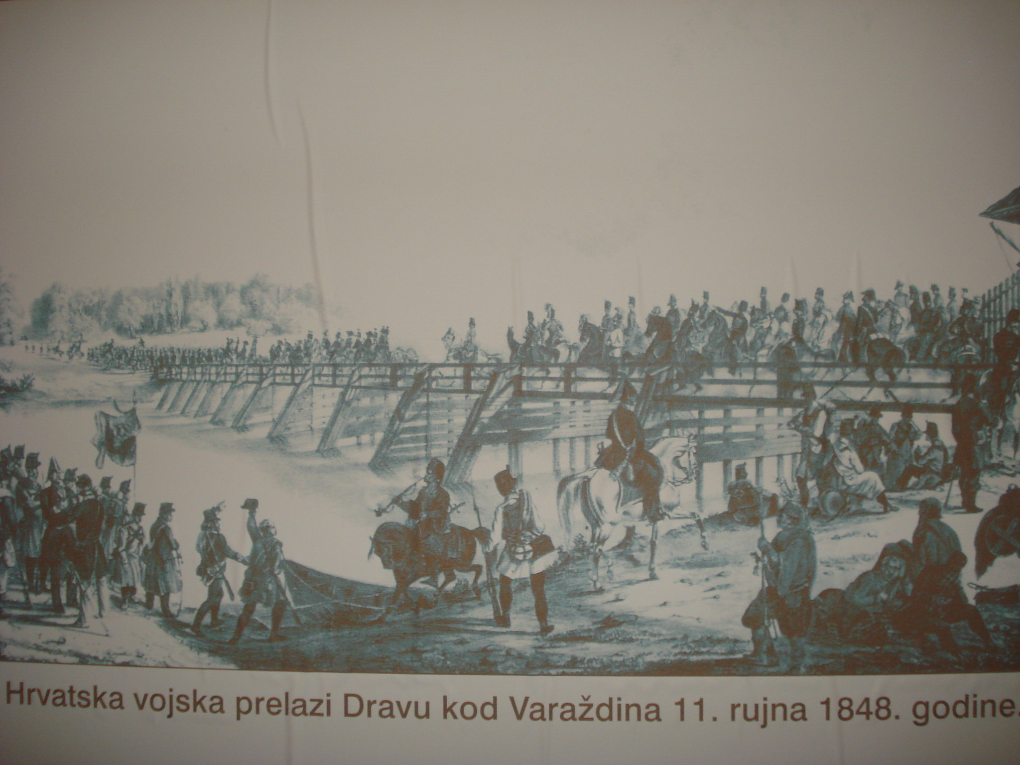 Croatian Army (led by Ban/Viceroy Josip Jelačić) crossing of the Drava River on 11th September 1848 in order to liberate Medjimurie County and to fight Hungarian rebels